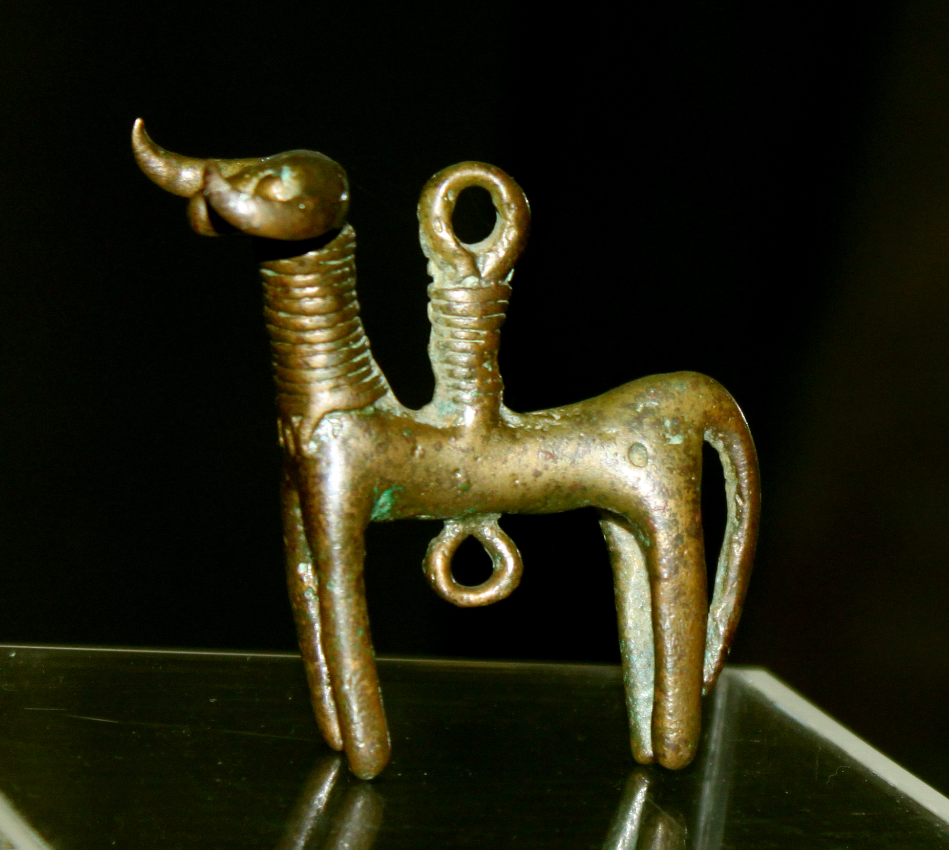 Bronze deer figure from Mingachevir